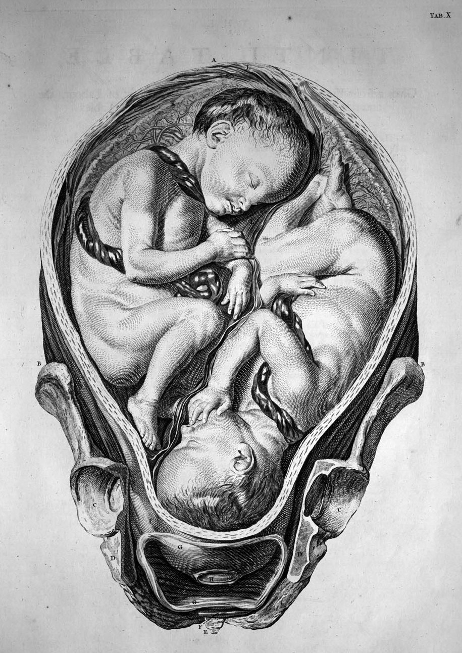 William Smellie (1697-1763): A Sett of Anatomical Tables with Explanations and an Abridgement of the Practice of Midwifery, 1754.